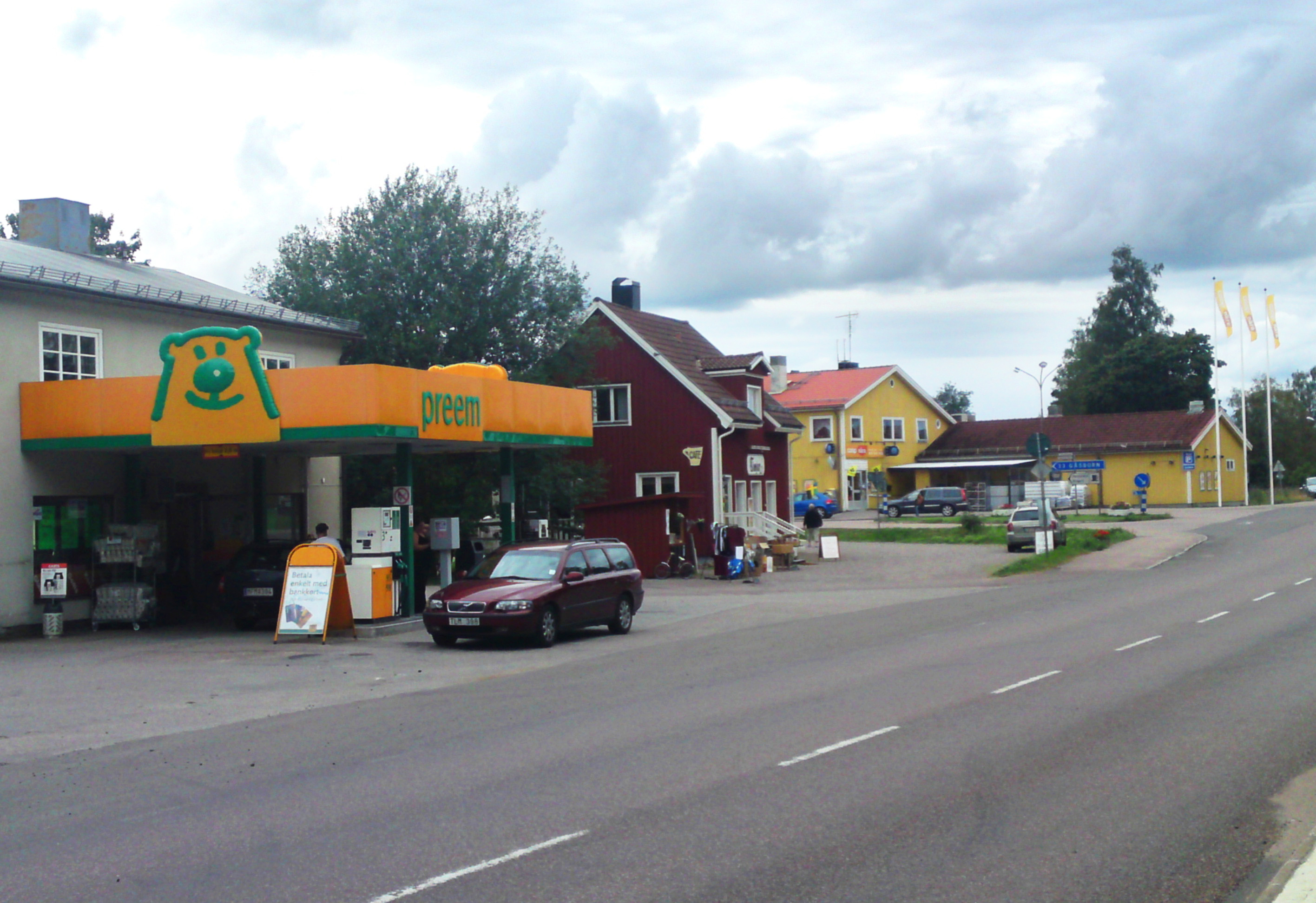 County road no. 245, central Fredriksberg, Dalecarlia, Sweden.